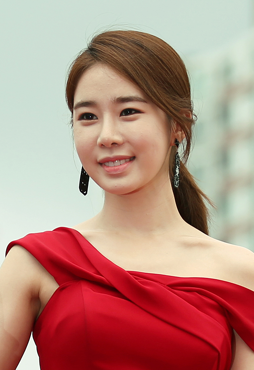 Actress Yoo In-na at the Pifan opening ceremony on July 17, 2014